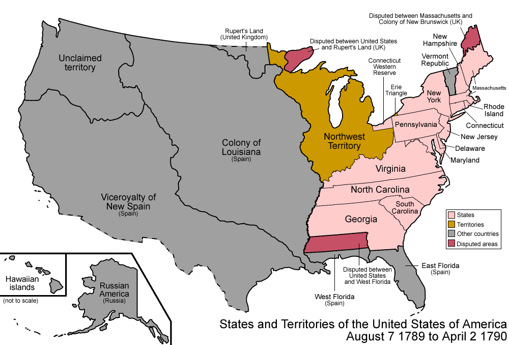 Map of the states and territories of the United States as it was from August 1789 to April 1790. On August 7 1789, the Northwest Territory was organized. On April 2 1790, the Congress accepted North Carolina's cession of its western lands.